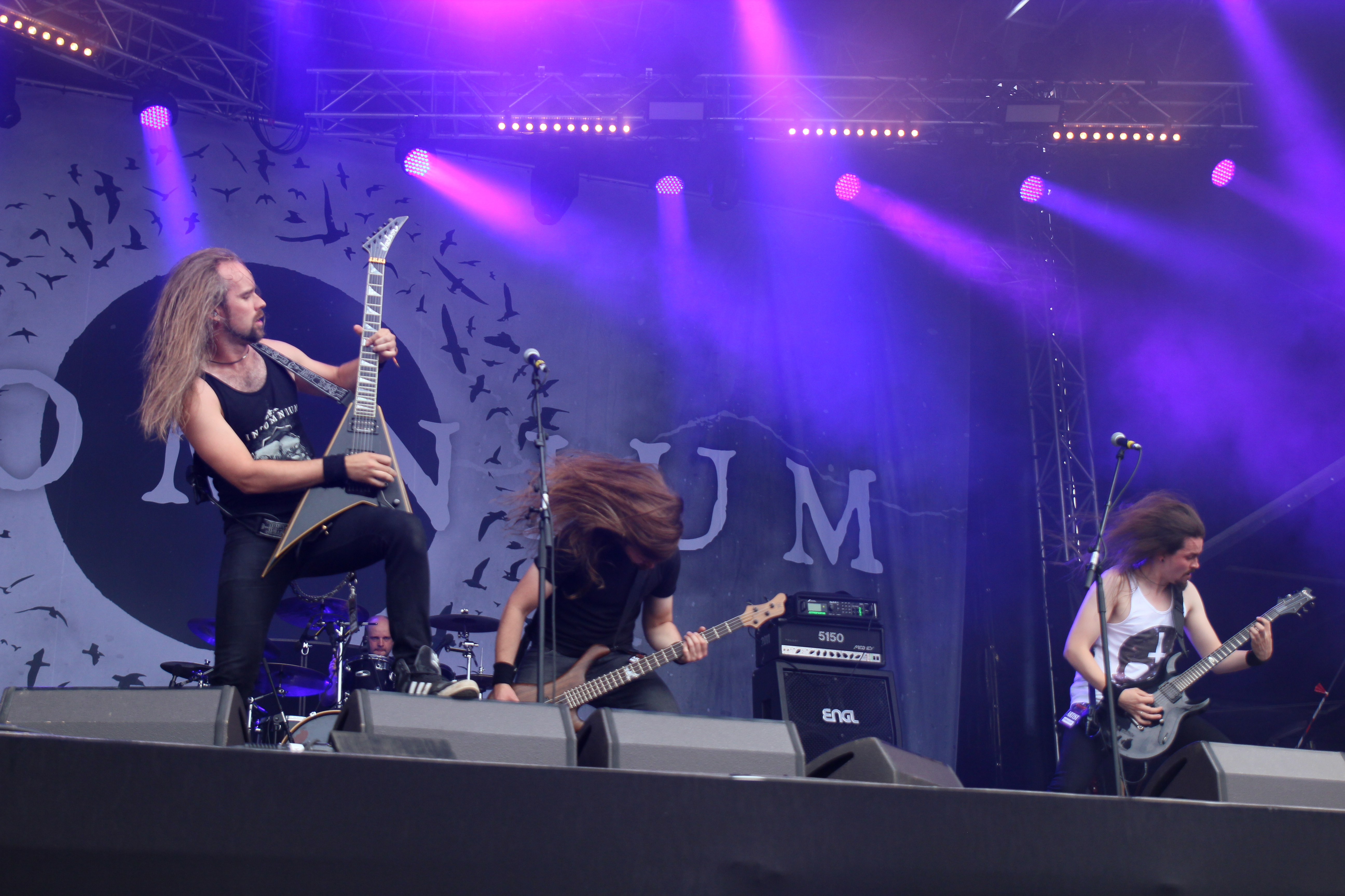 The Finish melodic death metal band Insomnium at the Rockharz Open Air 2014 in Ballenstedt/Germany